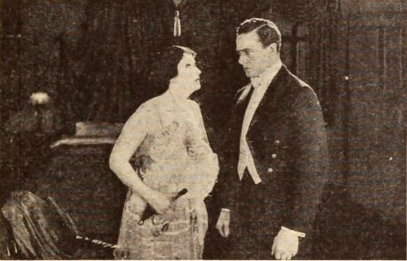 Still from the American silent film Charge It (1921) with Clara Kimball Young and Herbert Rawlinson, page 63 of the December 1921 Photoplay.